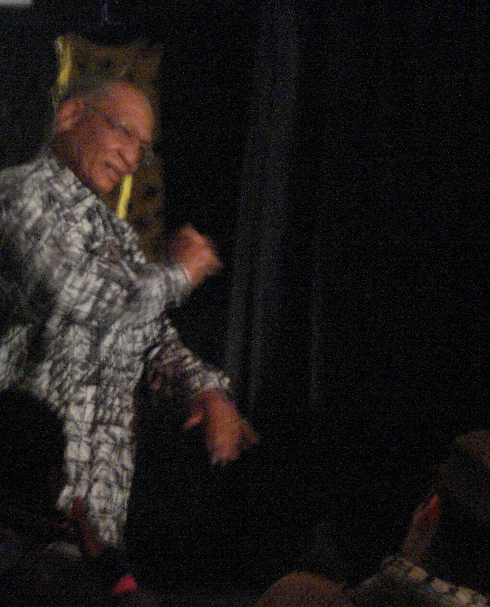 Don Mattera reciting a poem at the Katilist Theatre in Cape Town. Flurit took the picture on September 13, 2007. It is intended for the article on Don Mattera.